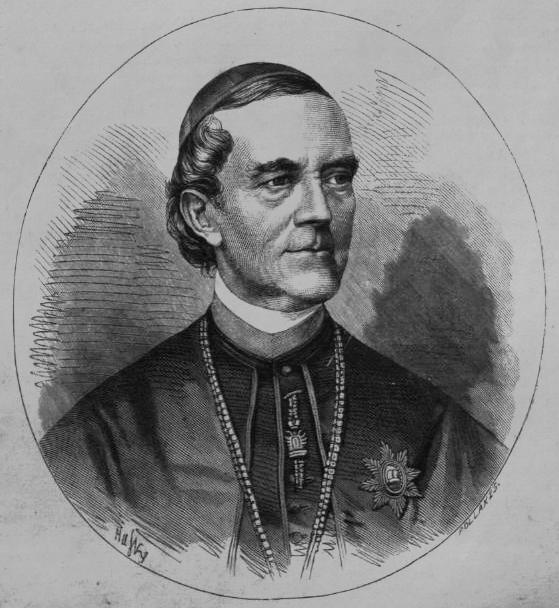 Portrait of János Ranolder